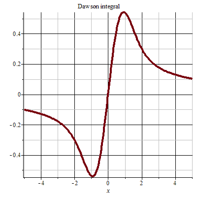 Anti symmetric Dawson Integral